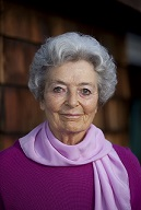 foto: roberto bulgrin 12. 2. 2011Esslingen, Portraet Elisabeth Nill.